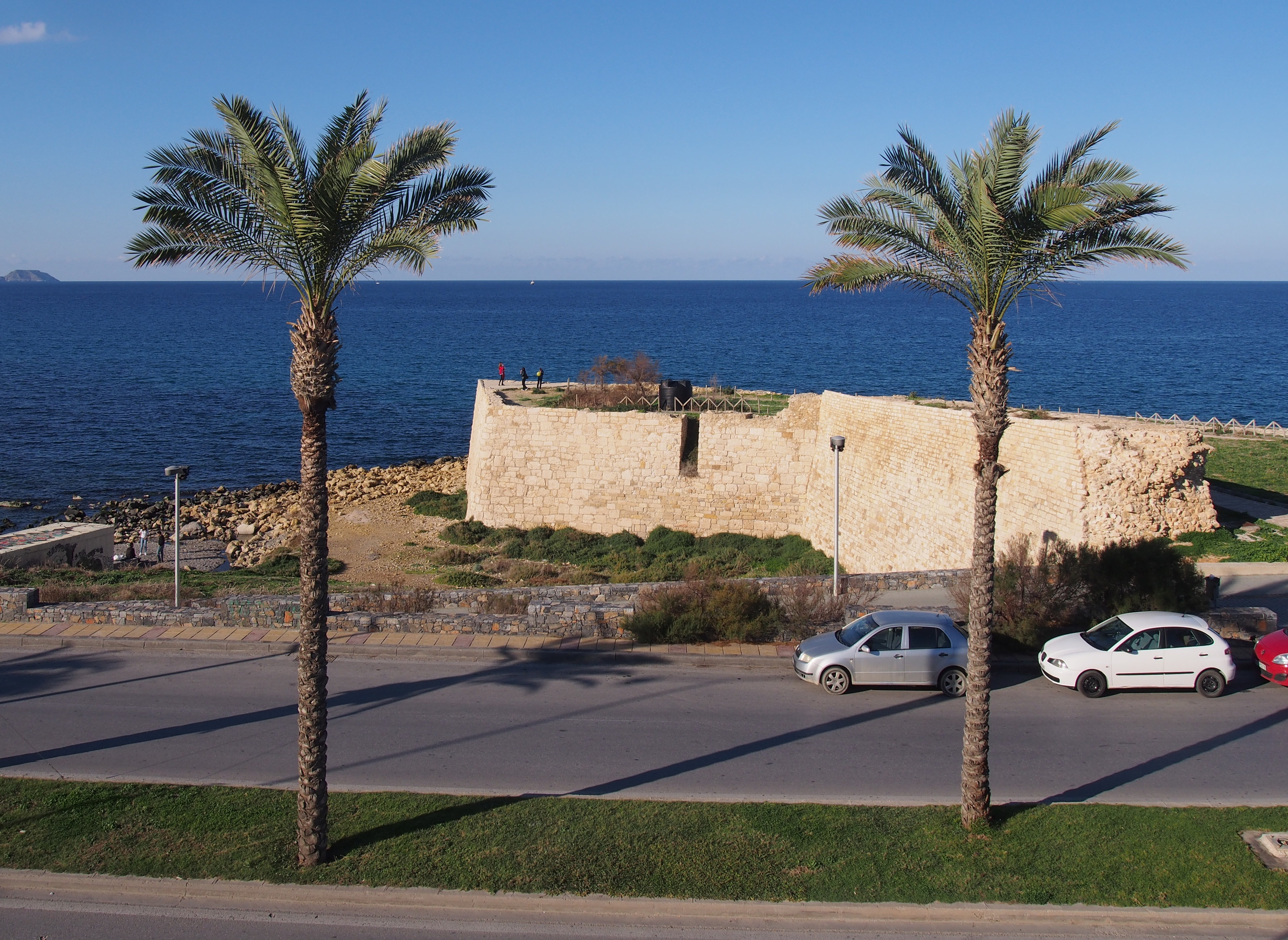 The west sea end of the walls of Heraklion, the Saint Andrew bastion.